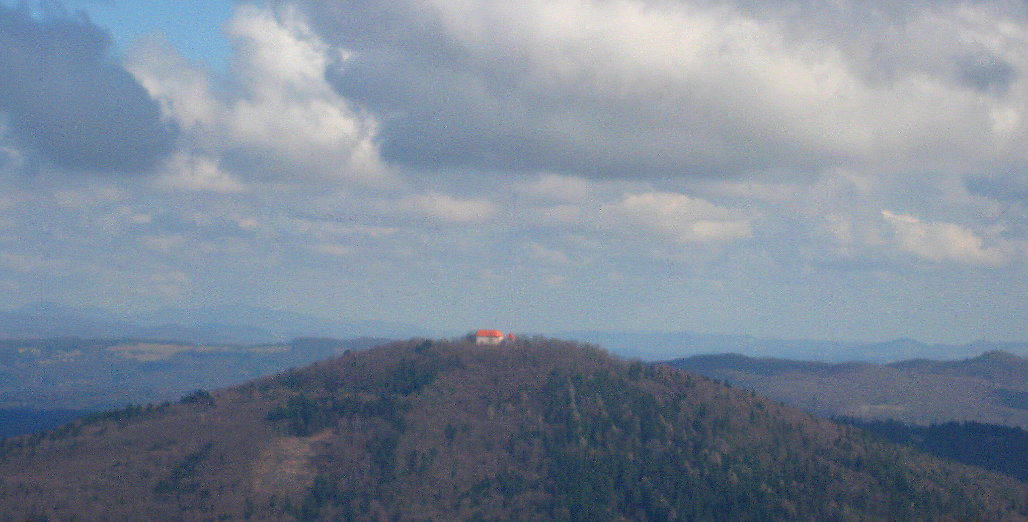 Sv. Agac, Gora (hill with st. Ahac church), Slovenia